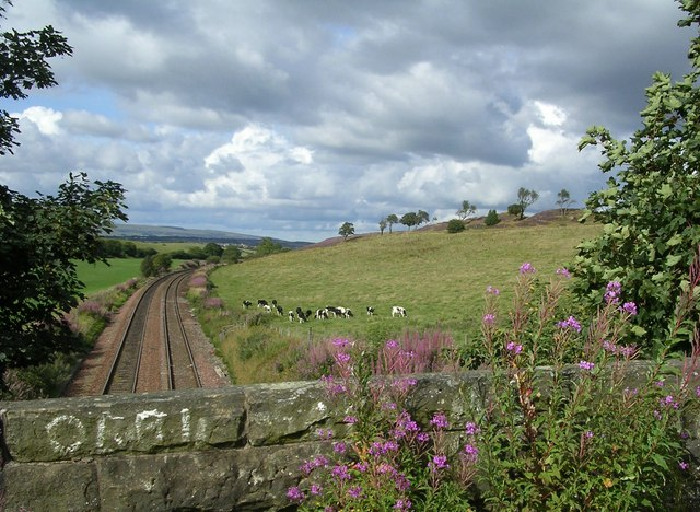 Railway Bridge on Gain Road. Cumbernauld Line and Motherwell to Cumbernauld Line